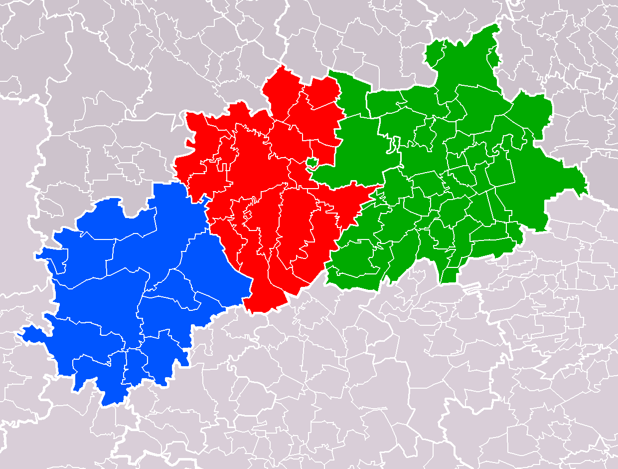 Administrative areas of municipalities with extended competence within Louny District as of January 1, 2010: MEC Louny MEC Podbořany MEC Žatec